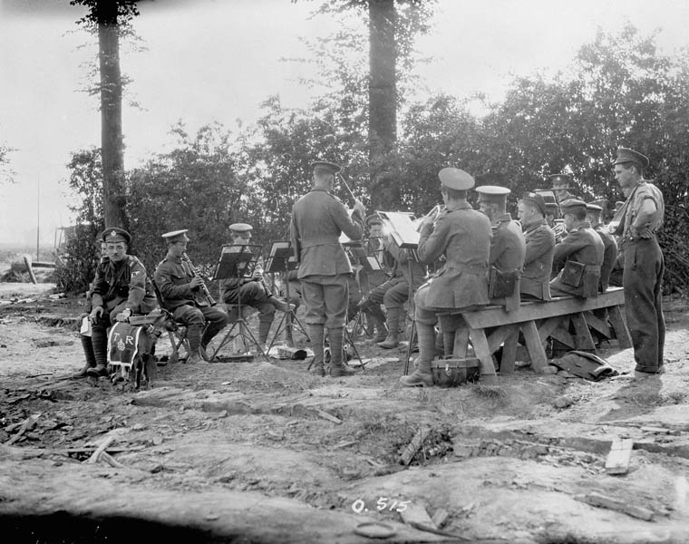 The Band (3rd Canadian Infantry Battalion). August, 1916.